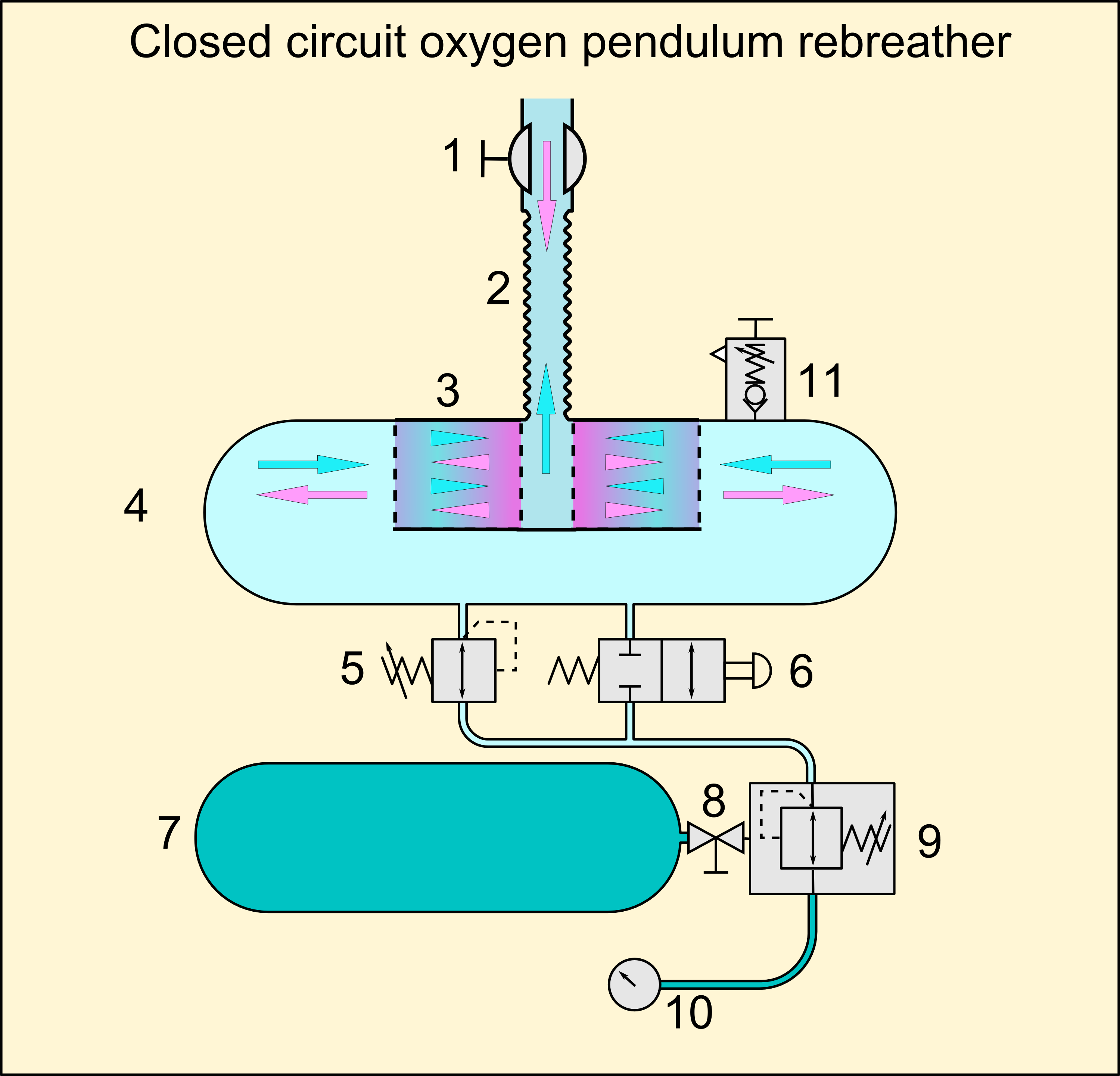 Schematic diagram of a closed cirduit oxygen rebreather with a pendulum configuration and radial flow scrubber 1 Dive/surface valve 2 Two way breathing hose 3 Scrubber (radial flow) 4 Counterlung 5 Automatic make-up valve 6 Manual bypass valve 7 Breathing gas storage cylinder 8 Cylinder valve 9 Regulator first stage 10 Submersible pressure gauge 11 Ovepressure valve